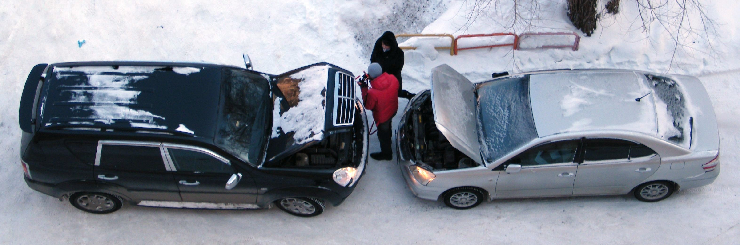 High-current connectors, jump starting a vehicle